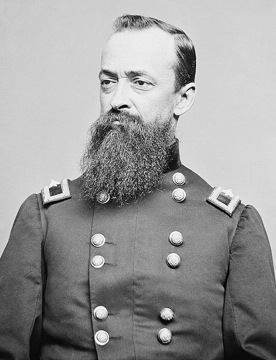 Joseph F Knipe. Library of Congress description: "Joseph Farmer Knipe"